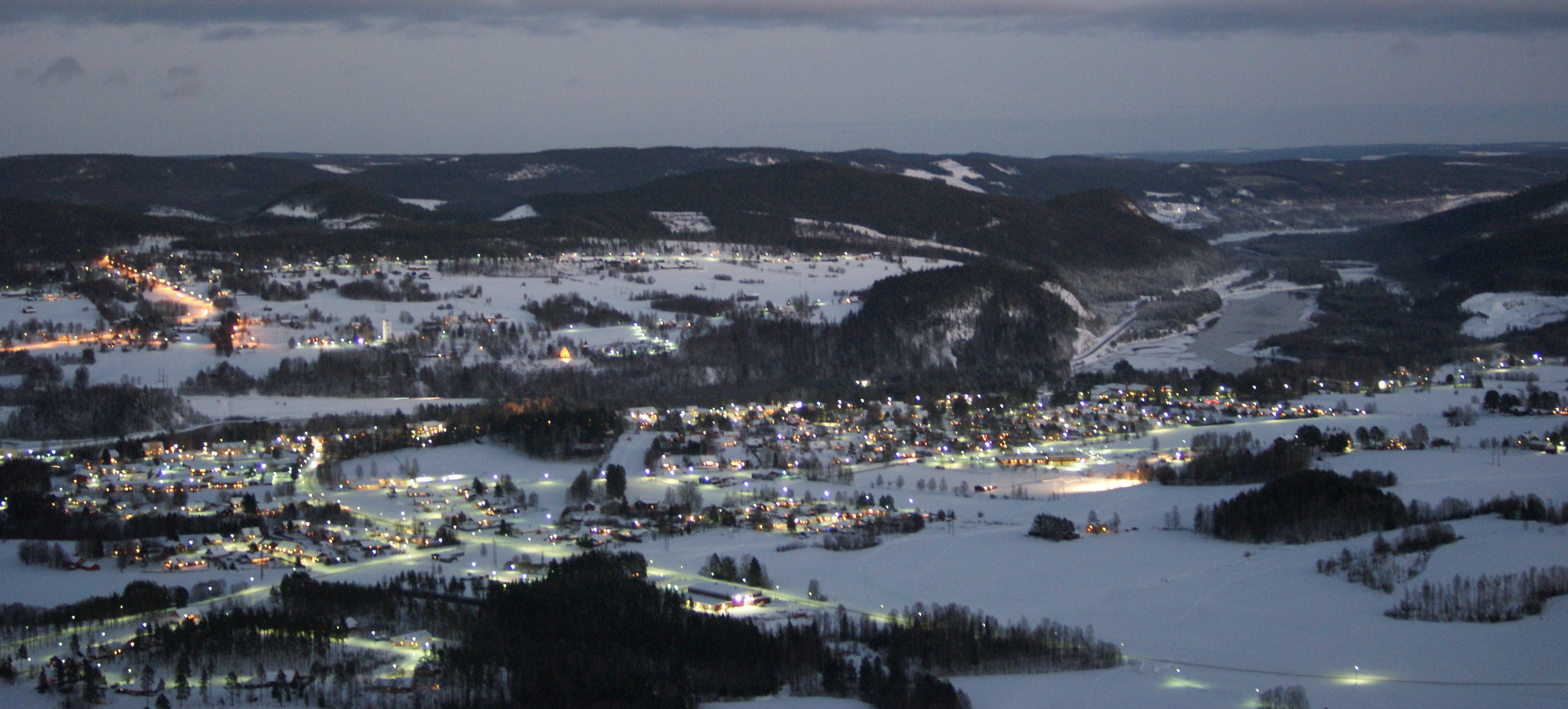 View over Hammarstand, Sweden by night.